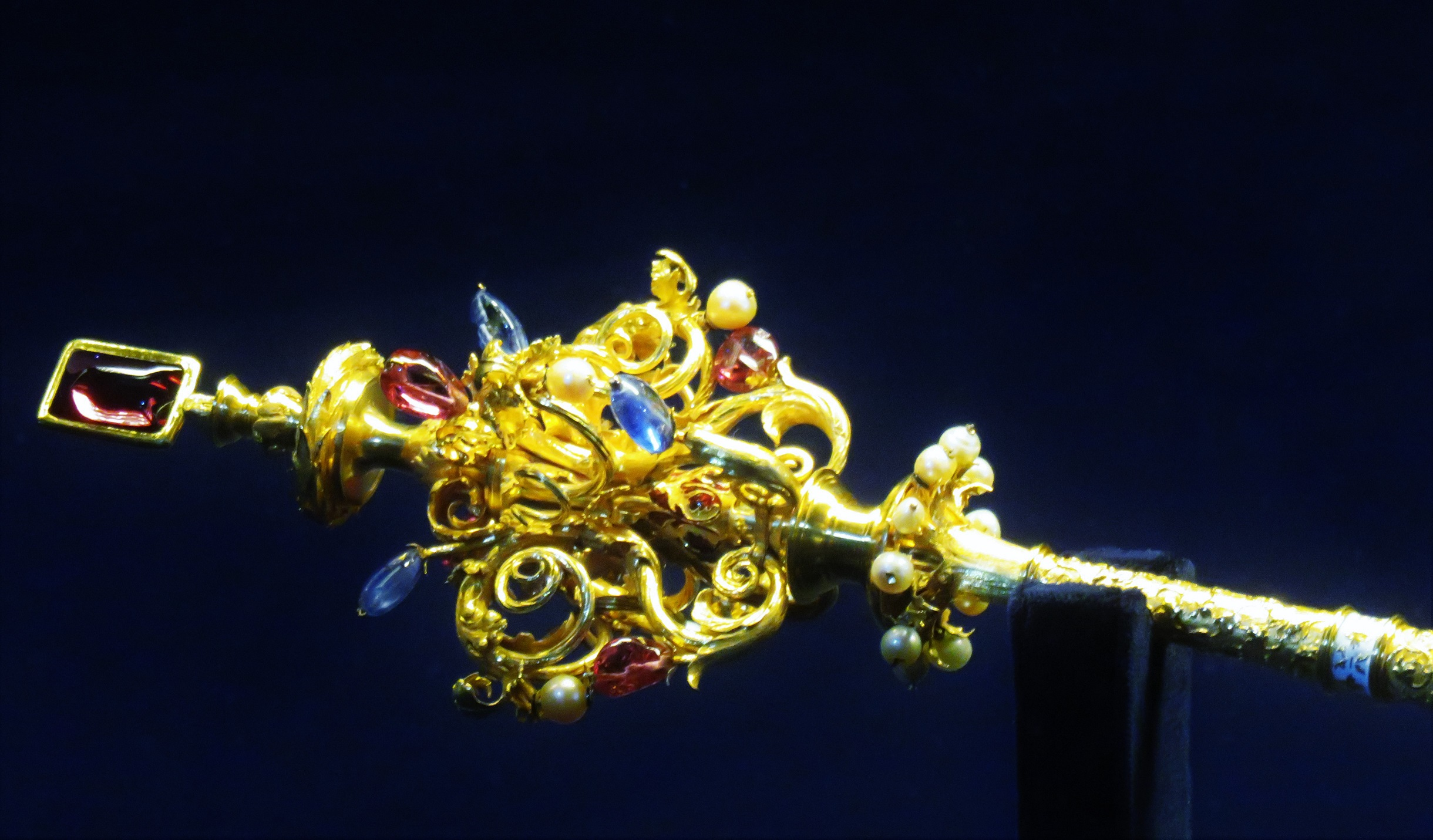 Czech Renaissance Sceptre.